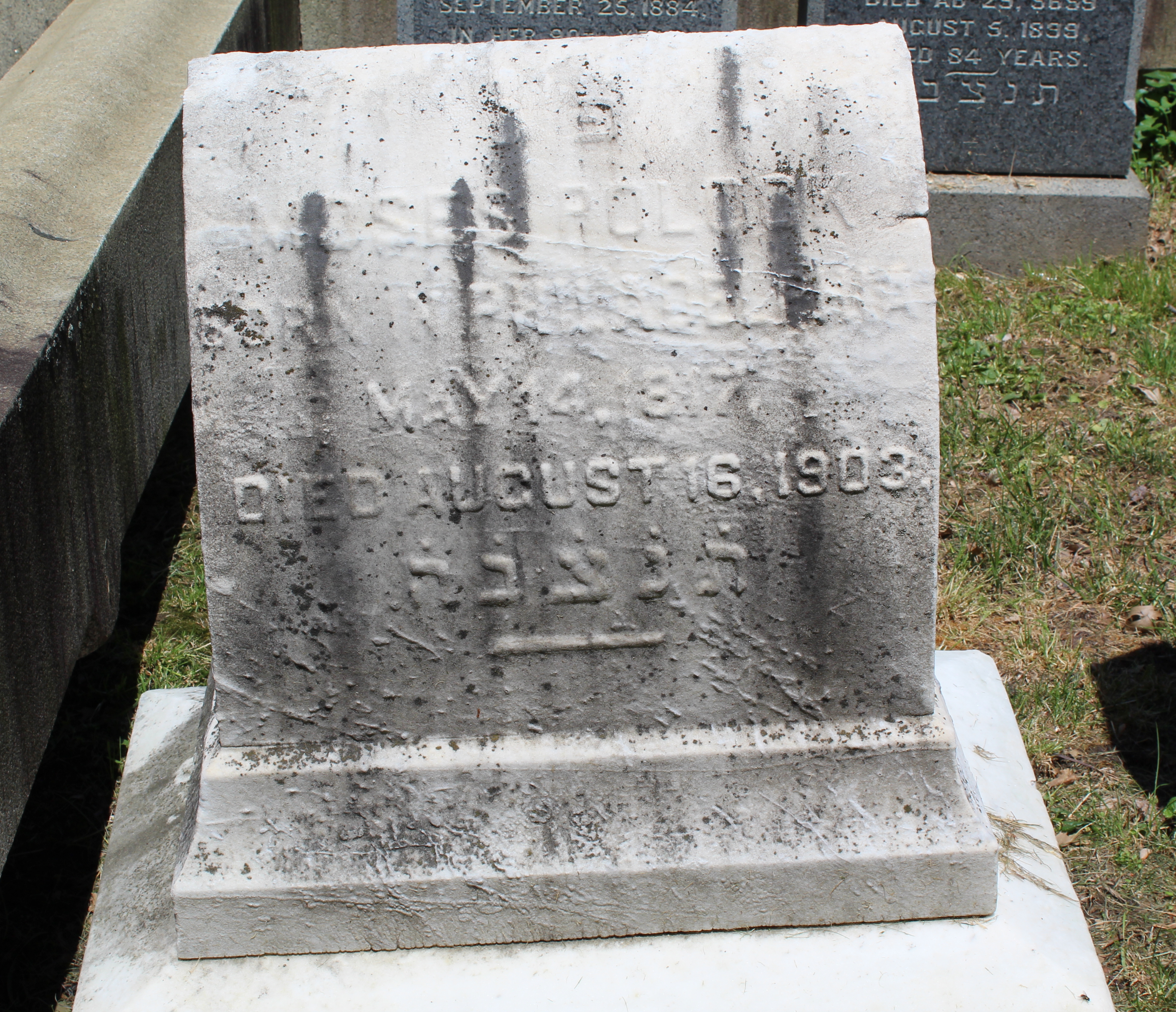 Moses Polock's headstone in Mount Sinai Cemetery in Philadelphia. Taken by Eric Schucht on May 11, 2019.